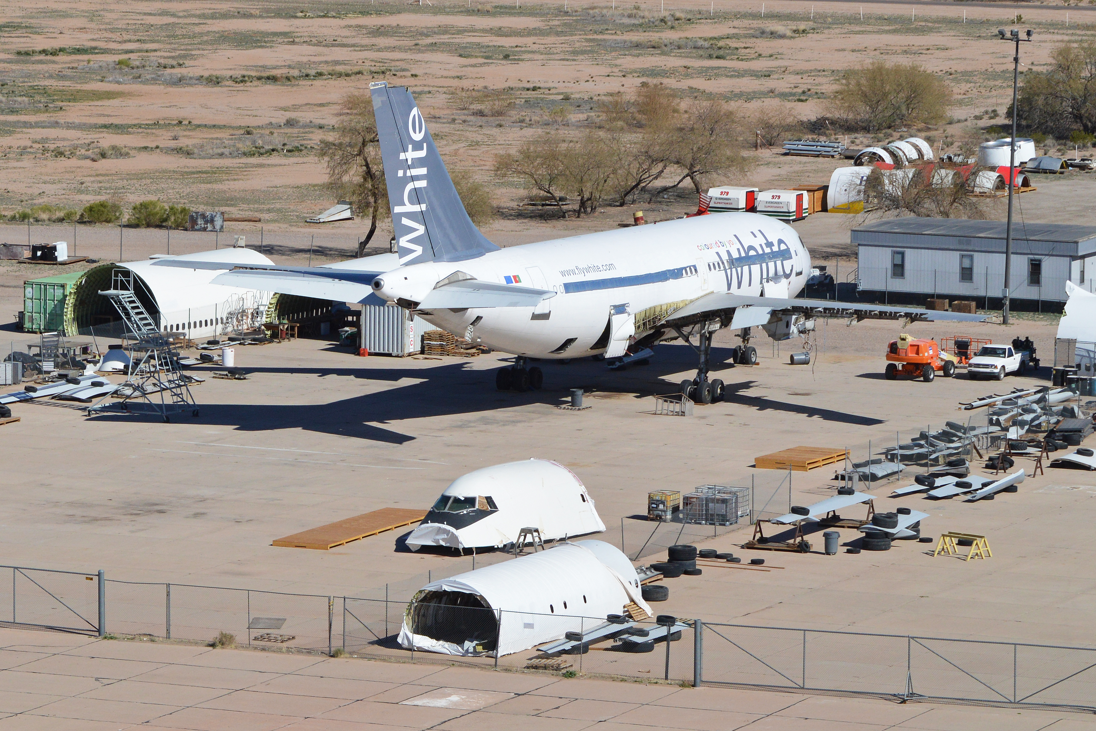 This A310 has had a varied career. Built in 1988 for Wardair as C-GDWD, it went on to fly with Kuwait Airways as A6-KUB and Hapag-Lloyd as D-APOM before returning to Canada as C-GRYA with Royal Airlines. It finally joined White as CS-TKI, markings which it still wears. c/n 448. The remains of a 747 are spread around, probably the last aeroplane broken up in this bay. Pinal Air Park, Marana. Arizona, USA. 09-2-2014